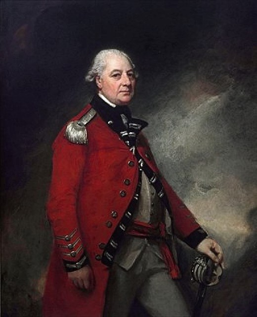 George Townshend, 1st Marquess Townshend (1724-1807). The port city Port Townsend was named after him